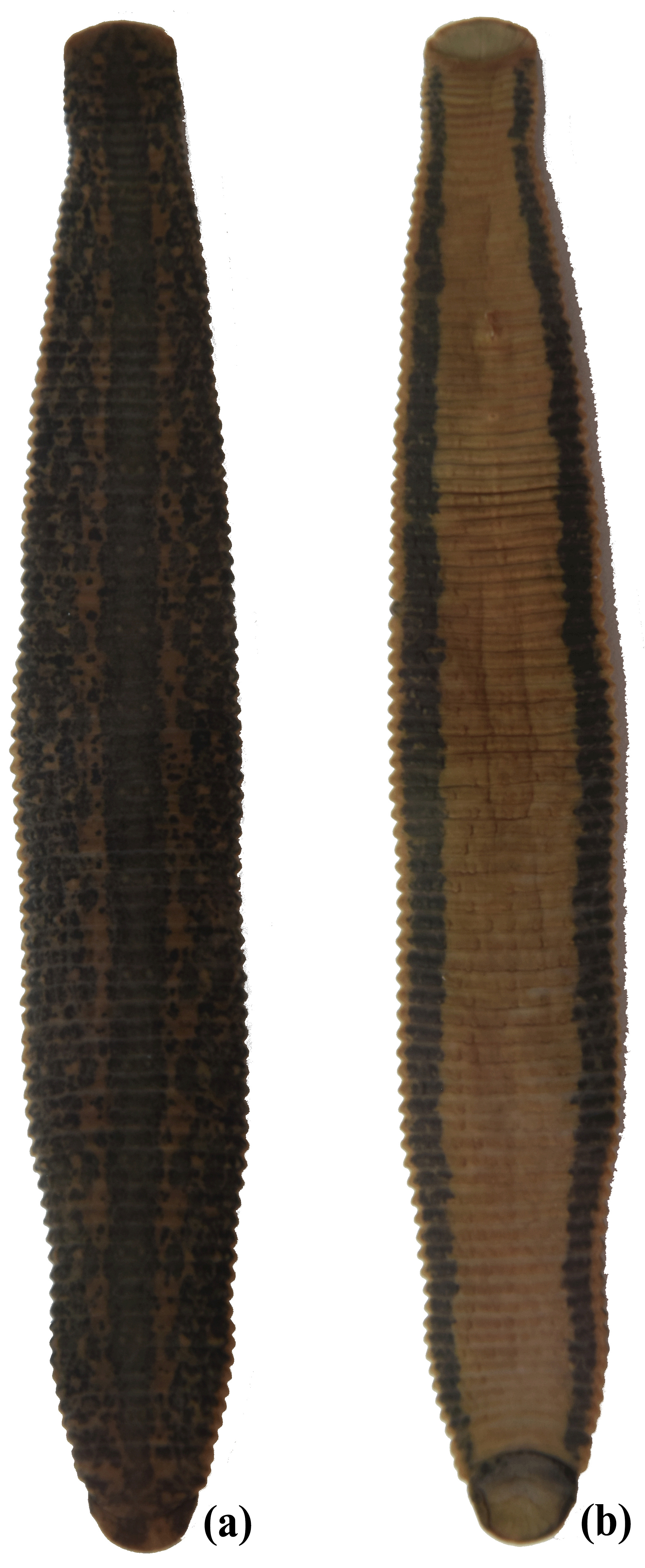 Dorsal (a) and ventral (b) views of Hirudo verbana